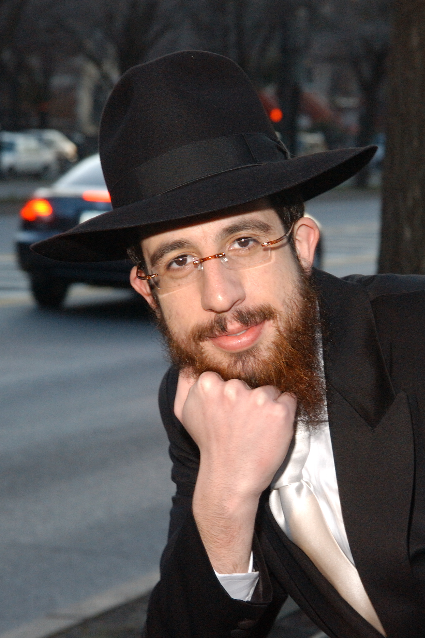 Hasidic Actor/Comedian Mendy Pellin